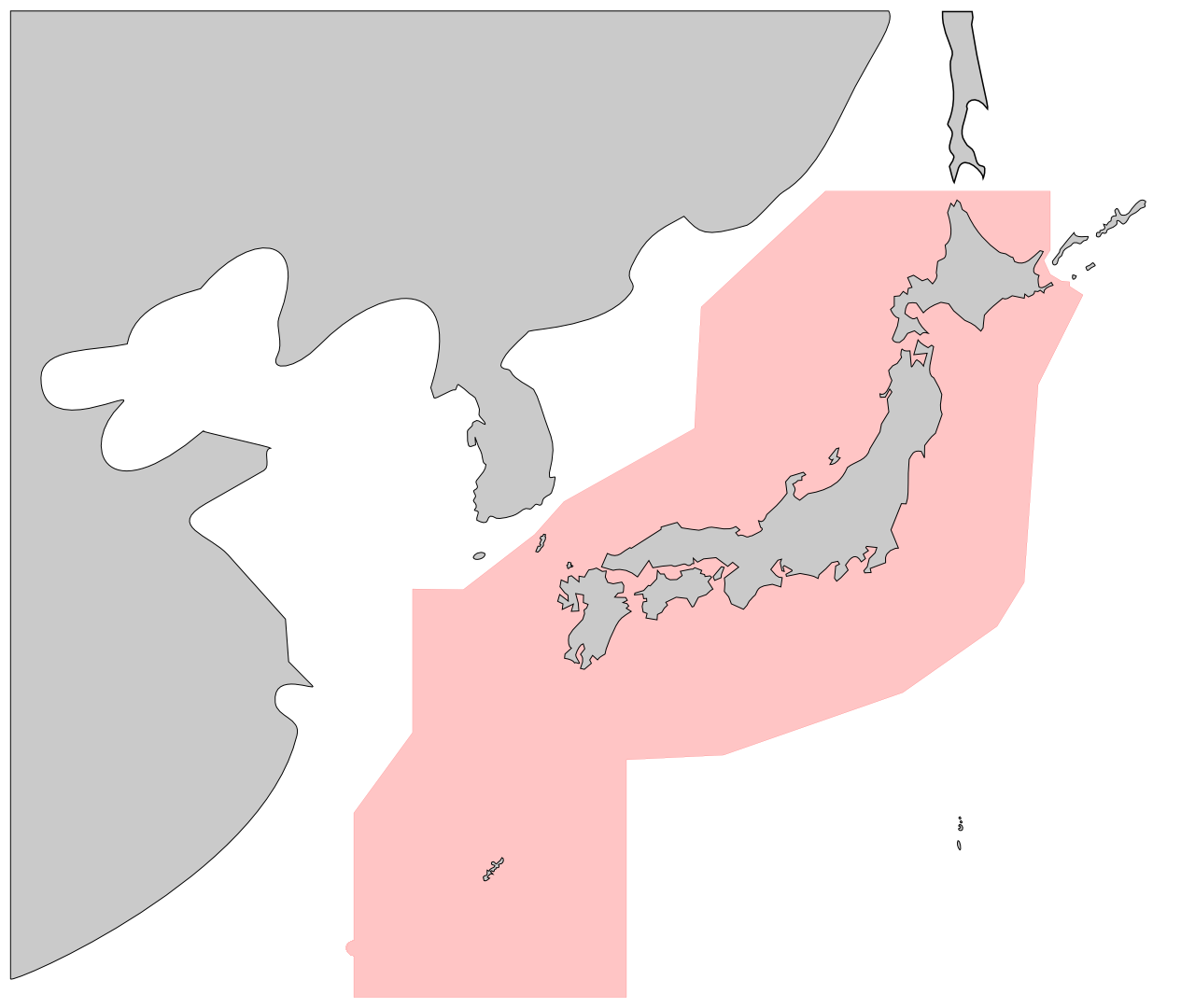 Air Defense Identification Zone (Japan)